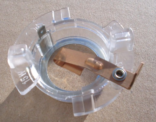 Support of a motorcycle headlight bulb